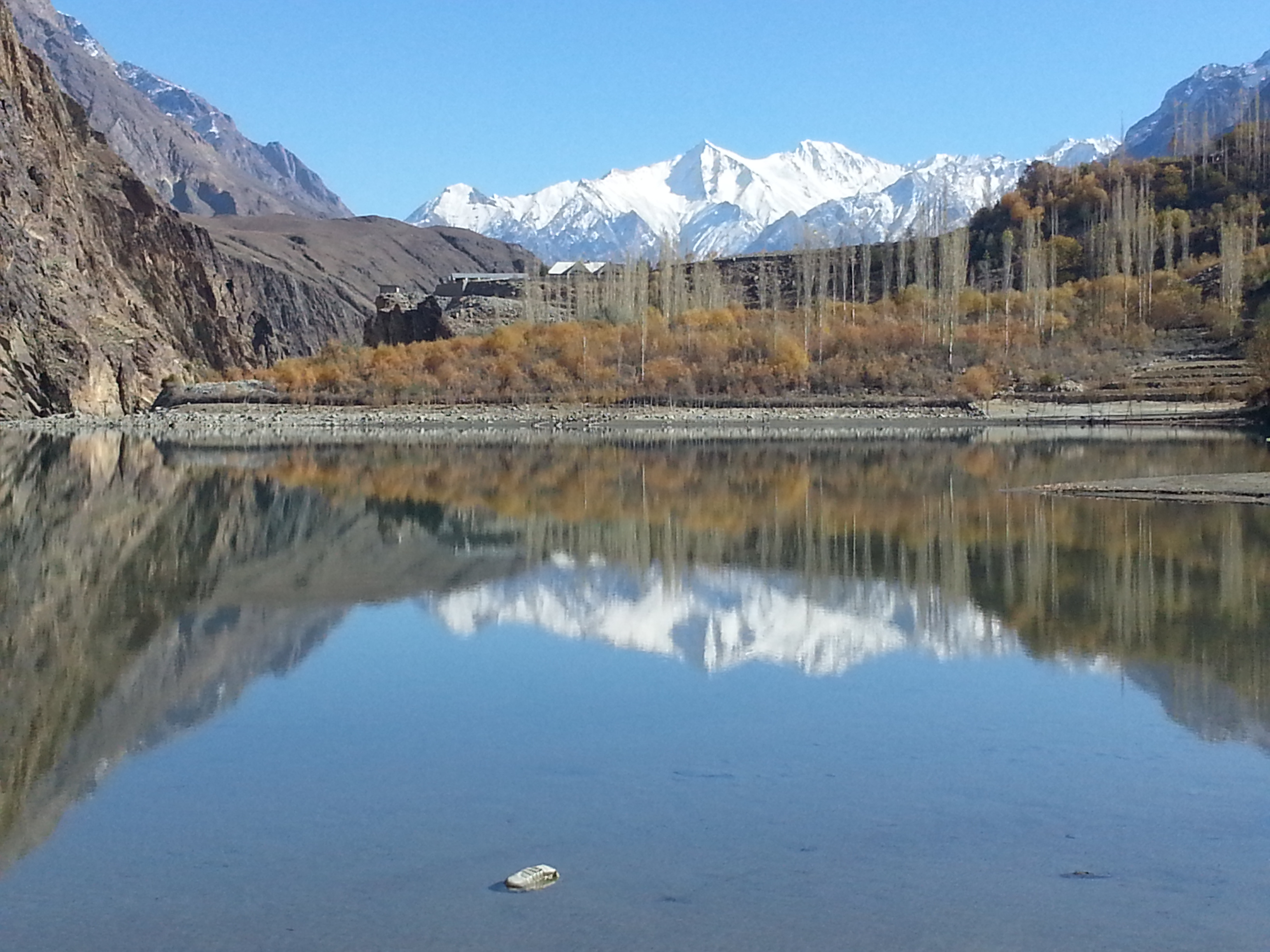 Khalti Lake view from eastern part